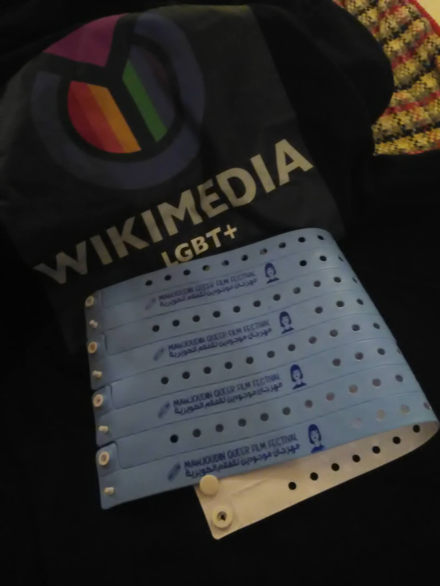 Access bracelets for the Mawjoudin Queer Film Festival 2019 in Tunis